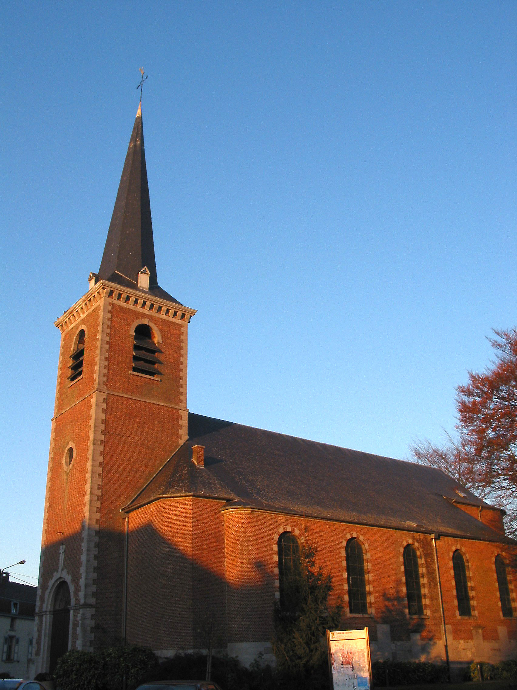 Thieusies (Belgium), the St. Peter church.